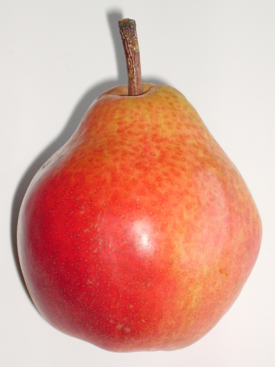 A red pear from Argentina